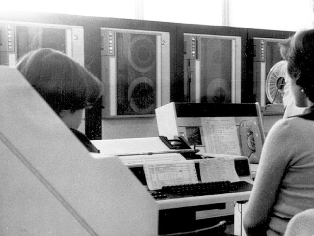 Romanian Felix C-256 computer